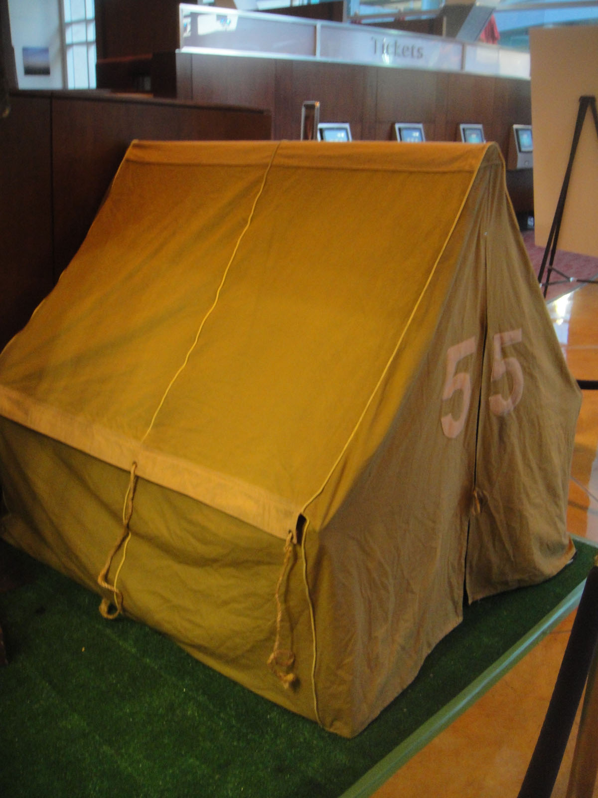 Moonrise Kingdom props at Arclight Hollywood.